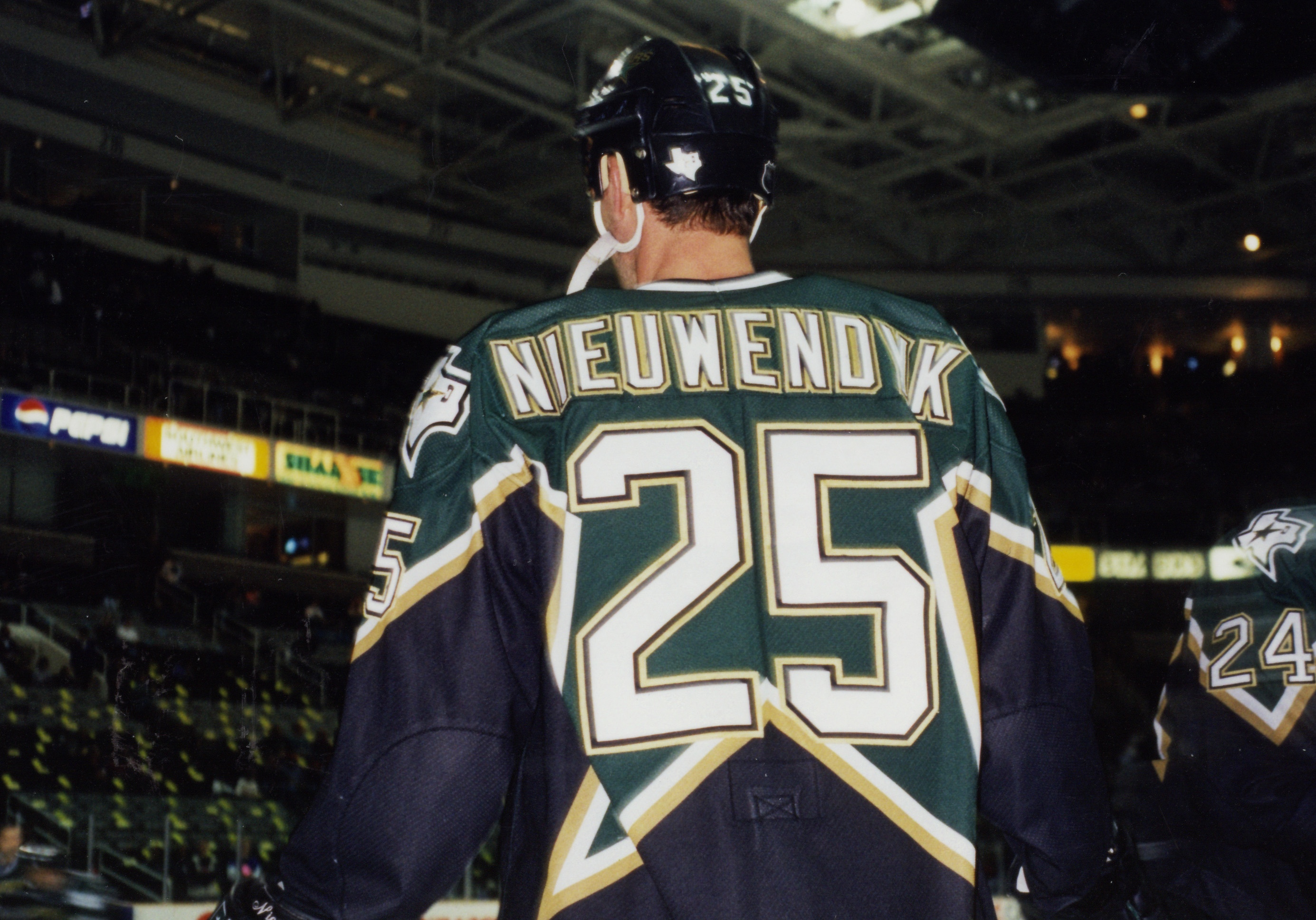 Joe Nieuwendyk